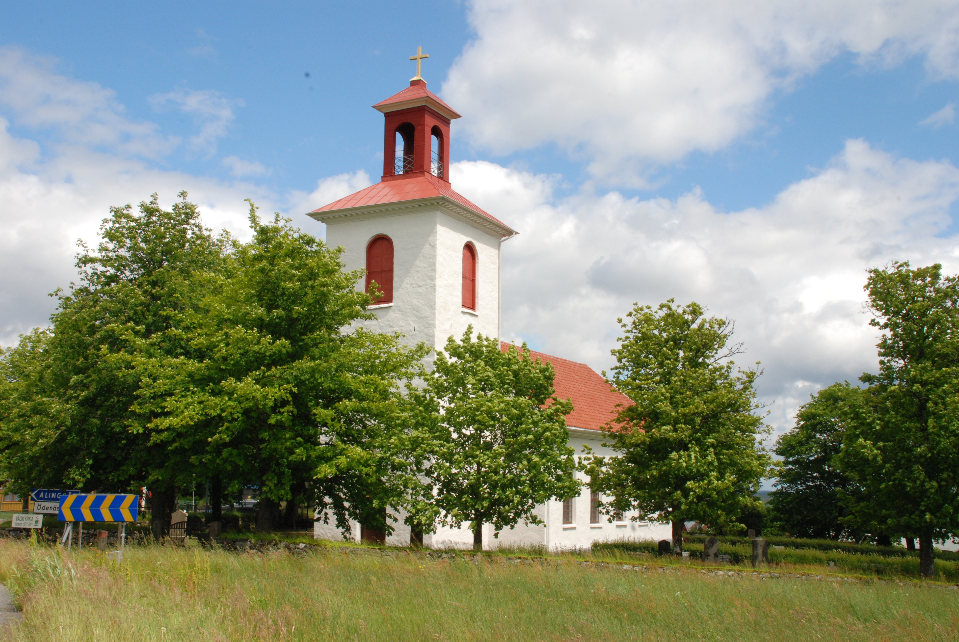 Ödenäs kyrka, parish church of Ödenäs, Alingsås Municipality, Sweden.